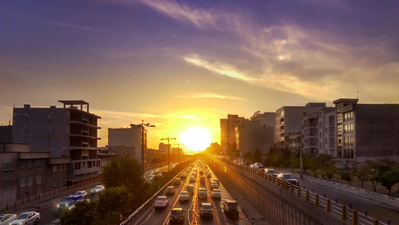 Picture of Niayesh Expressway at Sunset.